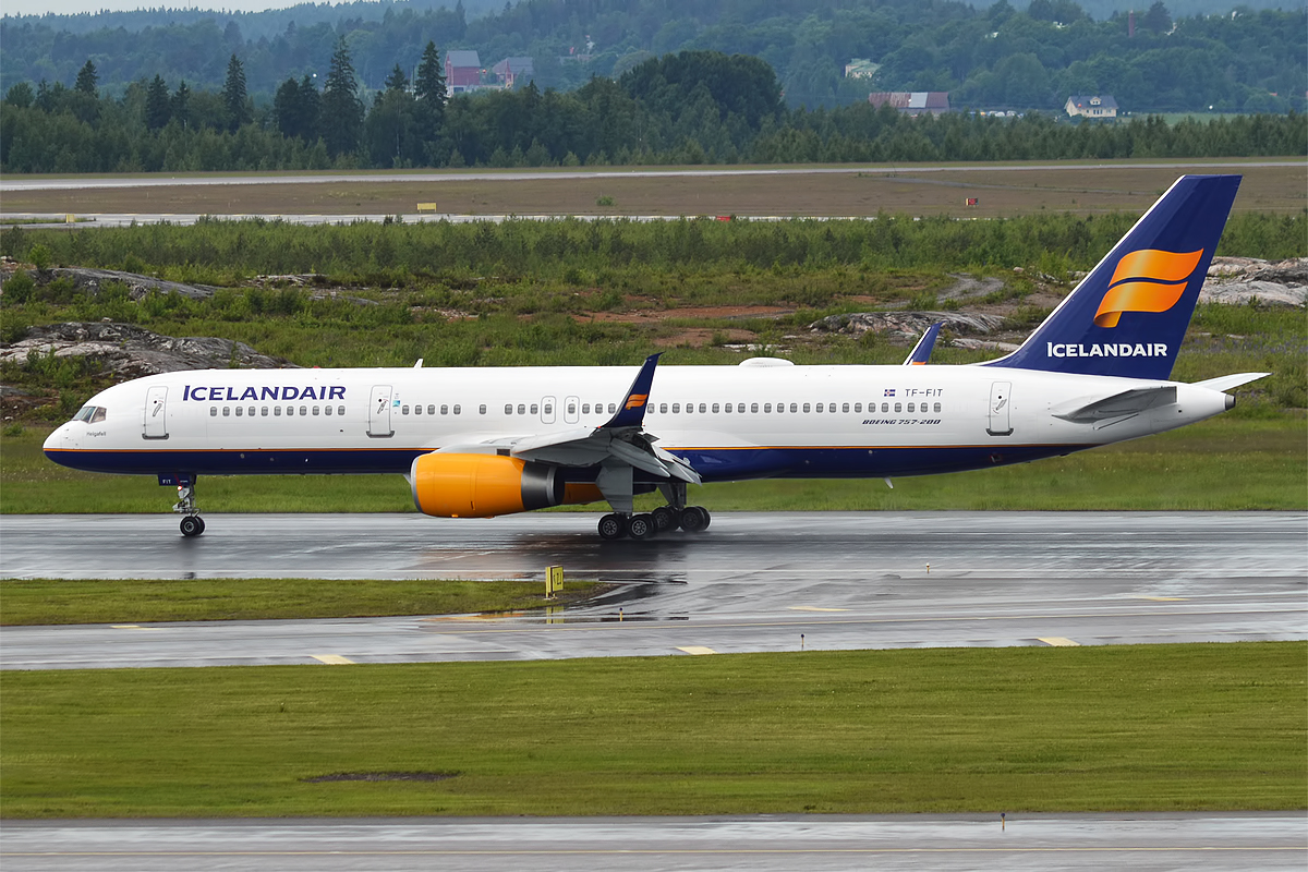 Icelandair, TF-FIT, Boeing 757-256